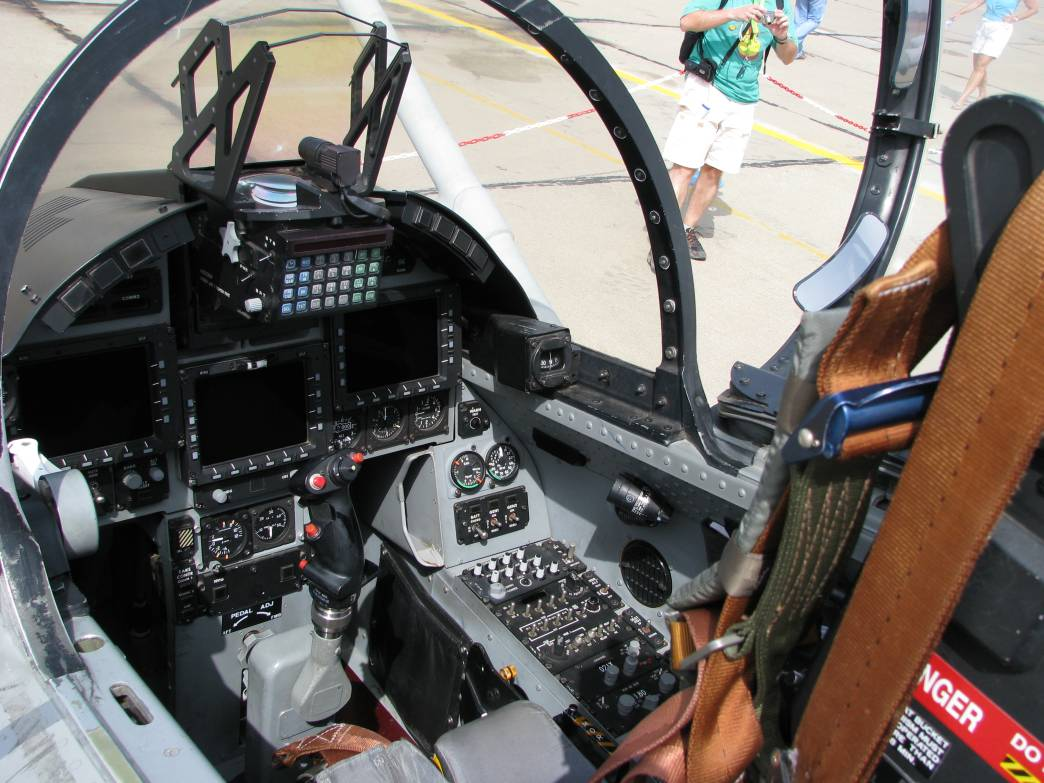 Cockpit of an Aermacchi MB339CD not an M2000D.